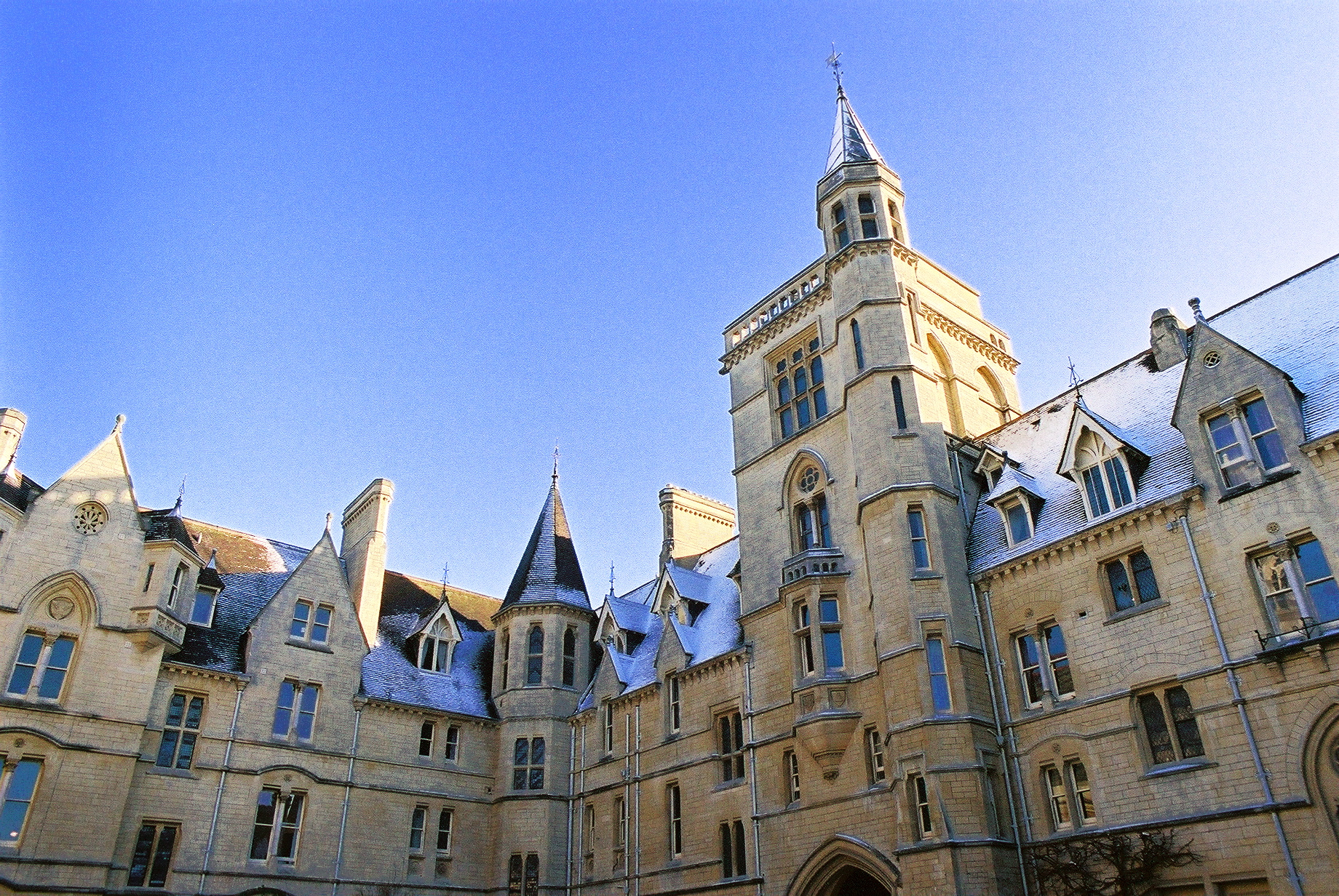 The front quad of Balliol College, Oxford.